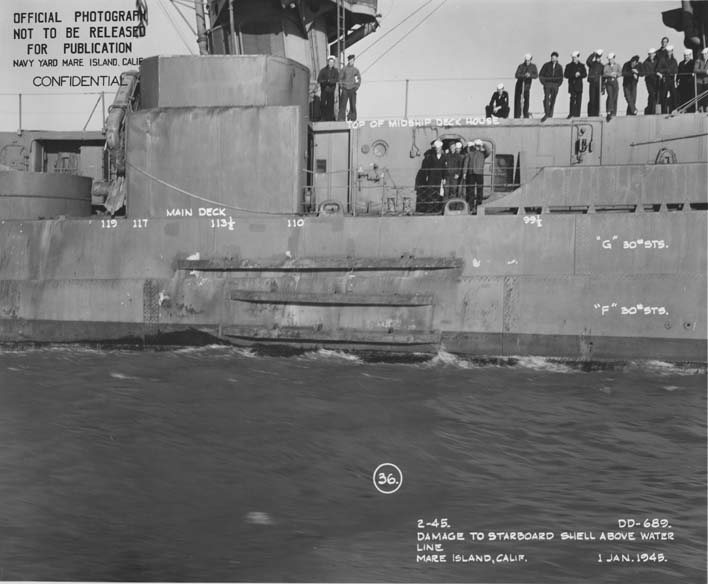 A photo showing the temporary repairs to the USS Wadleigh as a result of the mine blast from September 16th, 1944 off the Palau Islands. Official USN photo